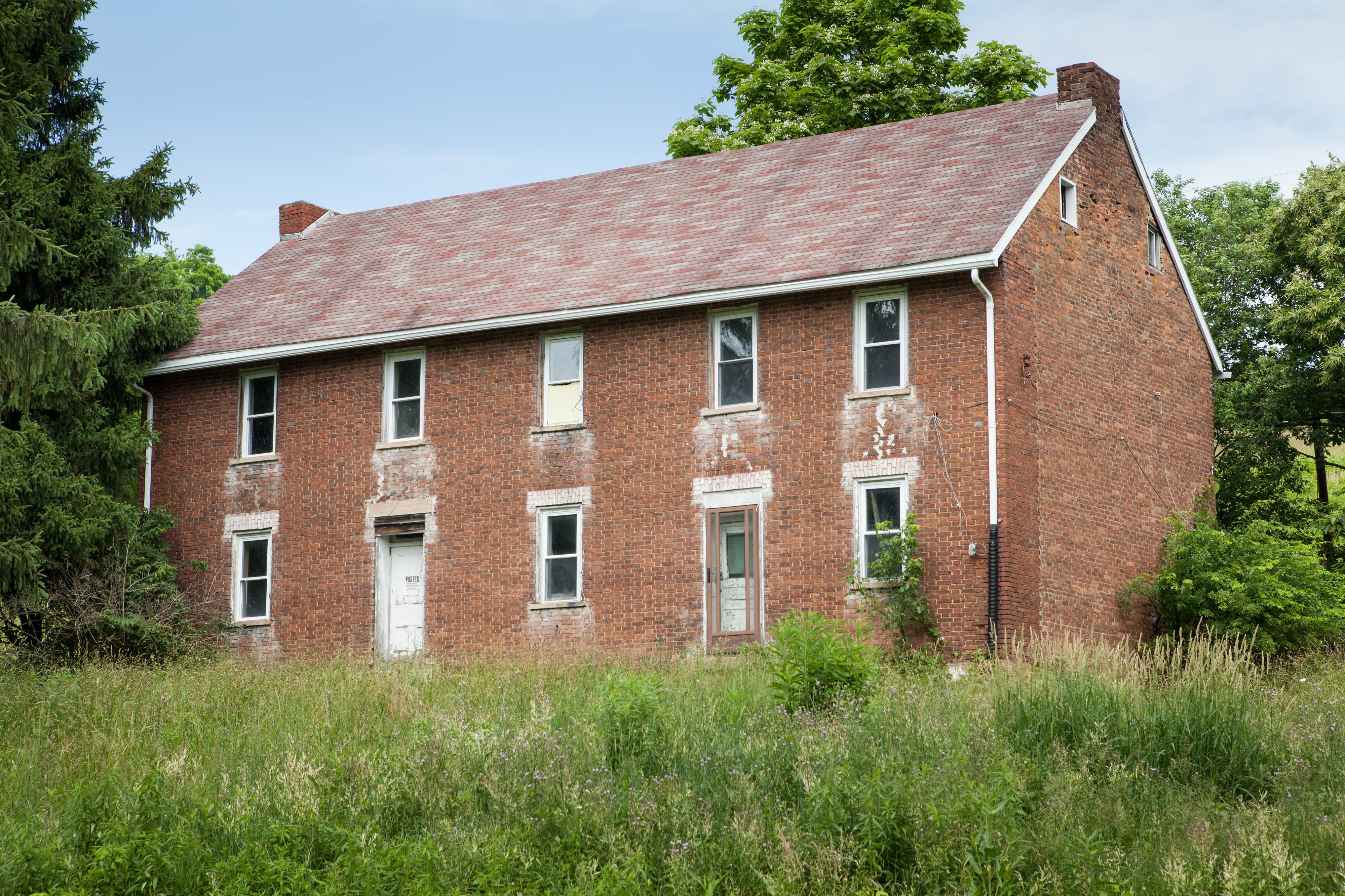 The John Corbley Farm, also known as Slave Gallant, is a historic home located at Greene Township in Greene County, Pennsylvania.